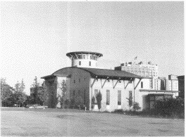 The Youngstown Historical Center of Industry and Labor in Youngstown, Ohio. Official government photo taken from the collection of the National Archives, accessed on March 22, 2007.